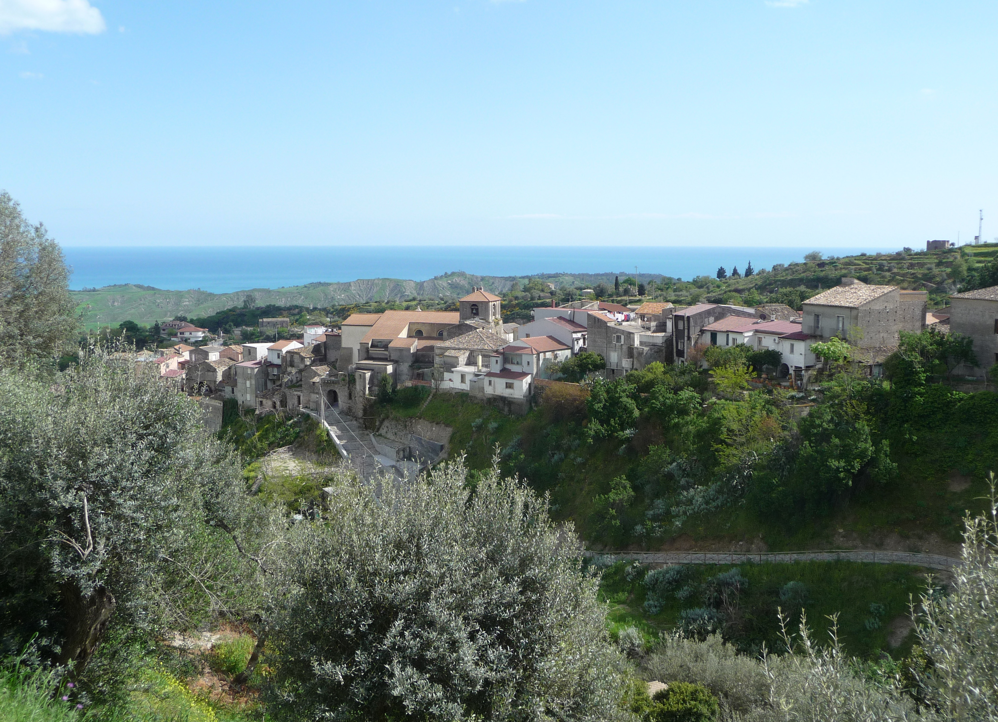 Riace Landscape